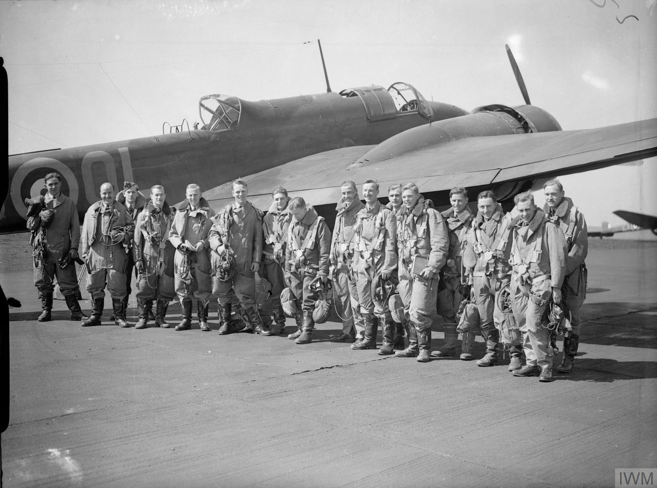 IWM caption : Bomber crews of No. 83 Squadron RAF line up by a Handley Page Hampden Mark I of the Squadron at Scampton, Lincolnshire.